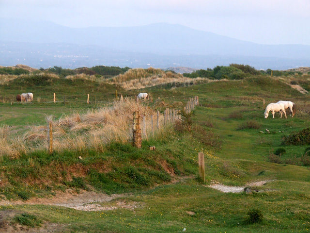 Wild horses at Newborough Warren. Wild horses grazing at Newborough Warren, there are warnings as you enter the warren not to feed the animals, as they might bite